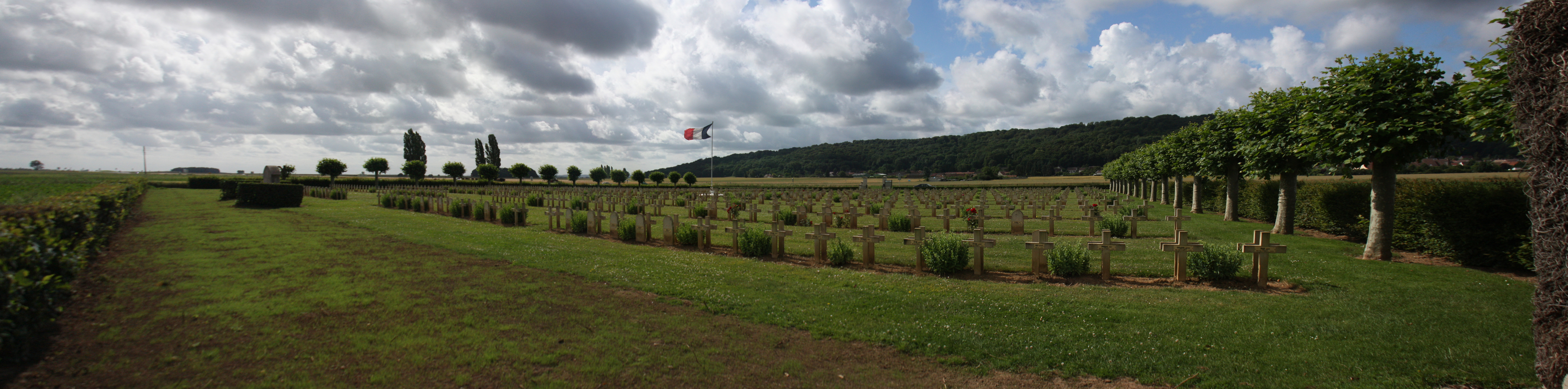 French military cemetary in Catenoy, Oise.